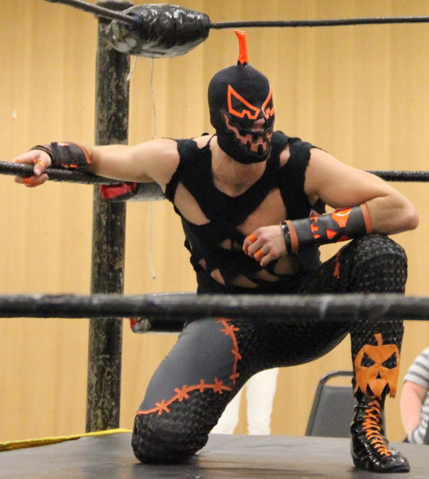 Professional wrestler Hallowicked at a Wrestling is Awesome event.